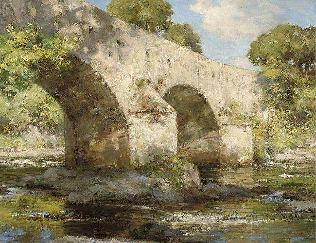 Bridge East Lothian